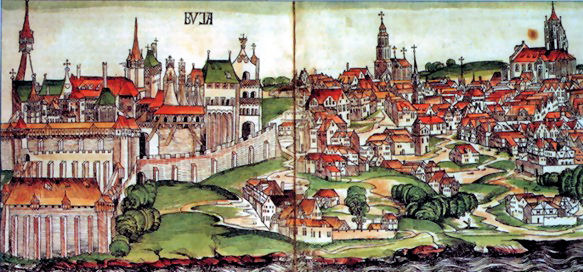 The hungarian town of Buda (today one half of Budapest) in the Nuremberg Chronicle